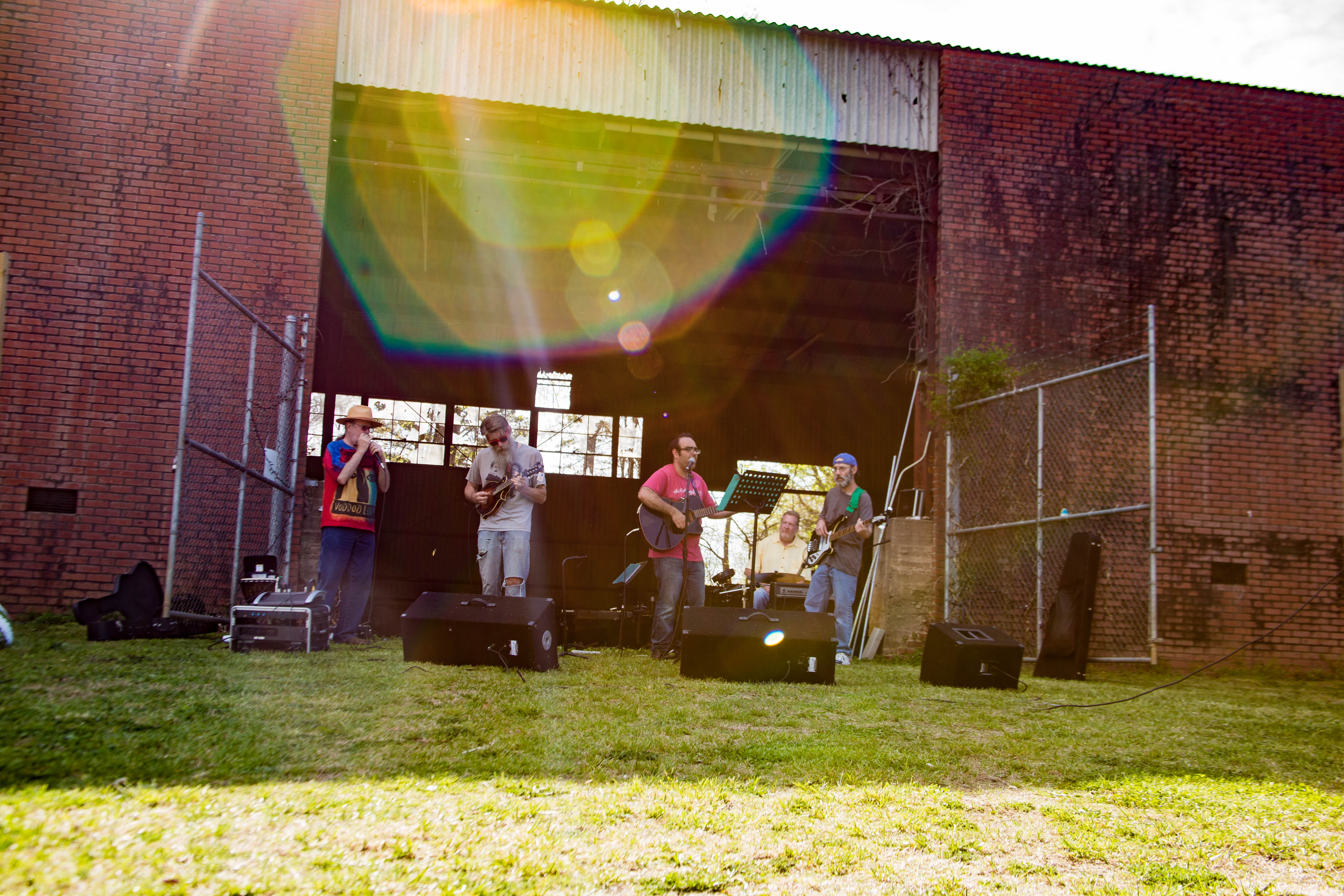 Double Shoals Cotton Mill Live music at DSCM